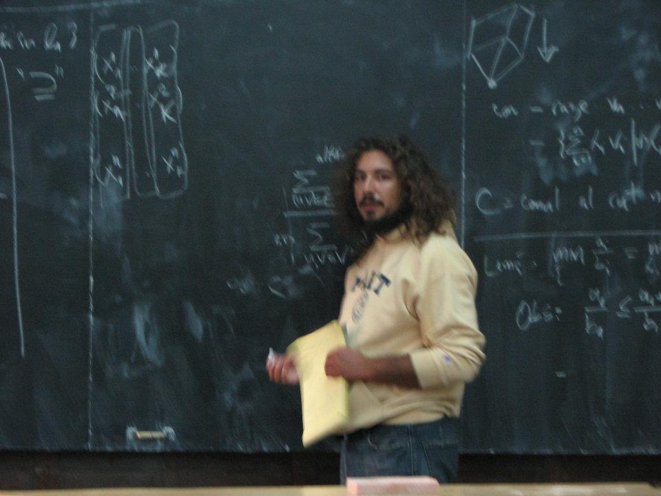 Mihai Patrascu at The University of Bucharest